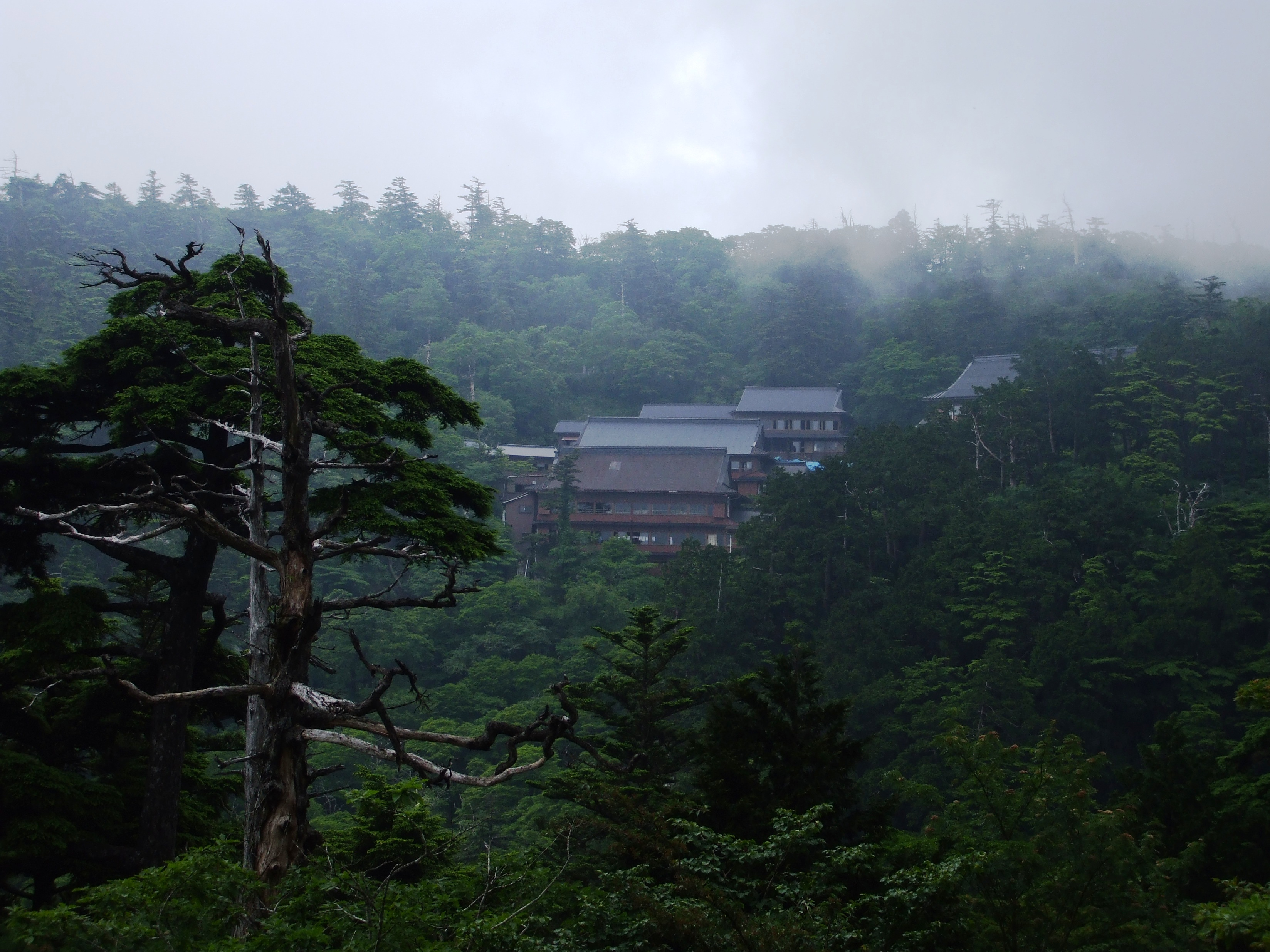 A Hospice on Mount Omine, Nara, Japan.